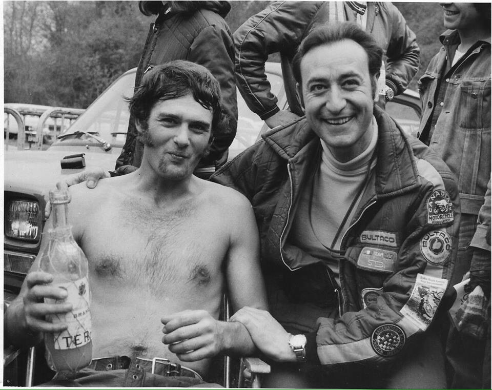 Jim Pomeroy and Oriol Puig Bultó (right) just after the American won, on his Pursang, the first moto of the 1973 Spanish Motocross Grand Prix of 250cc, held at the Circuit del Vallès on April 8. It was the first victory of Bultaco and of an American rider in a race of the Motocross World Championship. Although Pomeroy holds a bottle of Brandy, inside there was an isotonic drink...